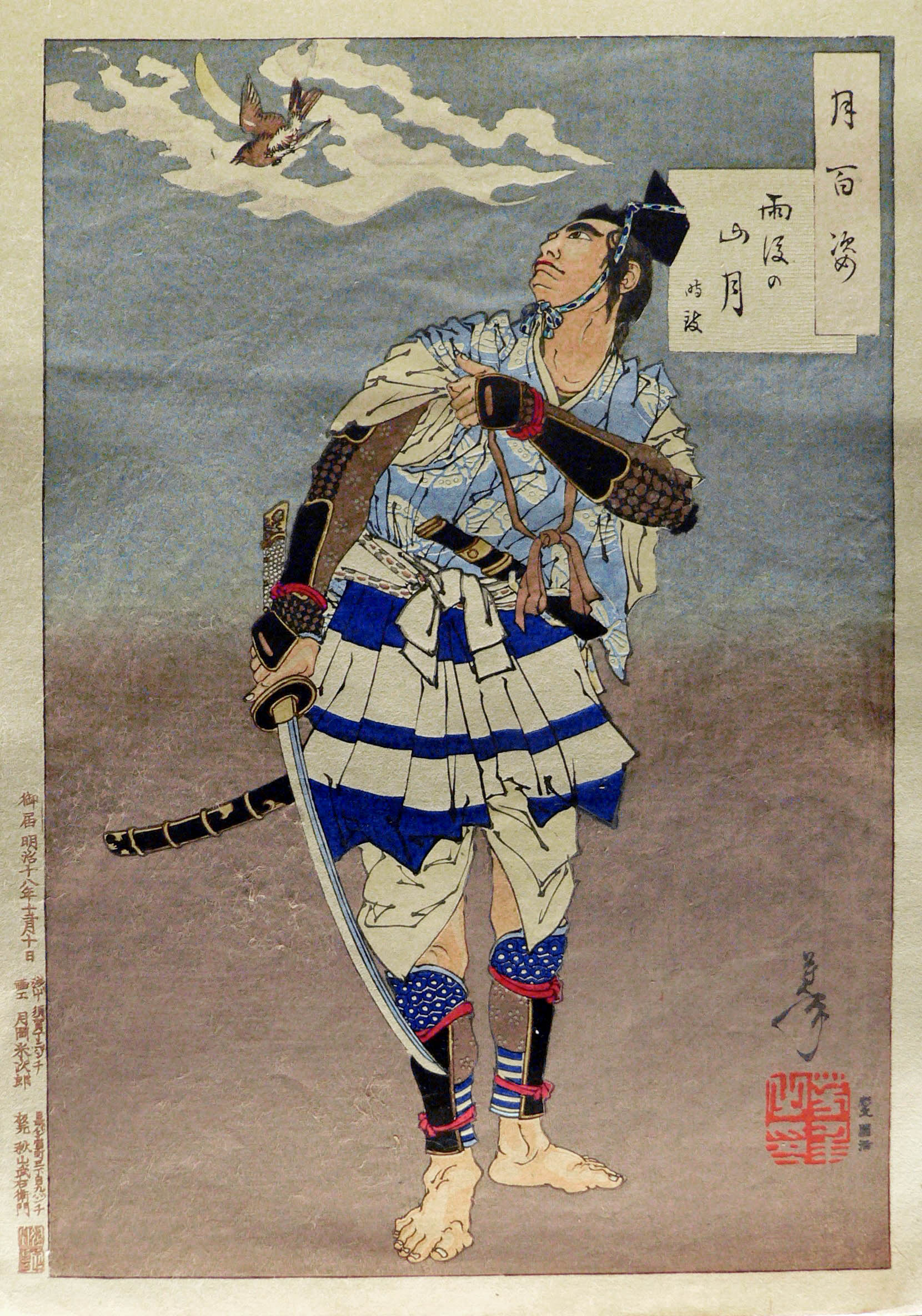 Guro Tokimune, one of the Soga brothers, prepares to avenge the death of his father with a night attack. The cuckoo flying in front of the moon crescent symbolises the ephemeral nature of life. Stamp in the Tsuki hyakushi series ("100 aspects of the moon"), by Taiso Yoshitoshi, 1885.